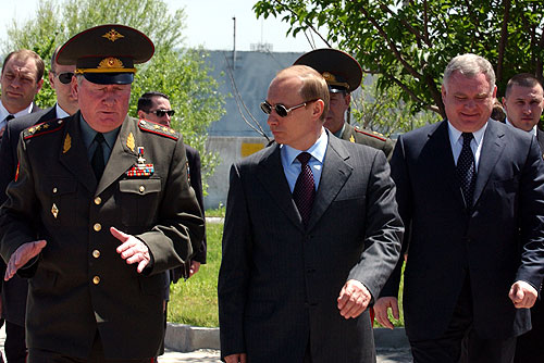 General Alexander Ivanovich Baranov